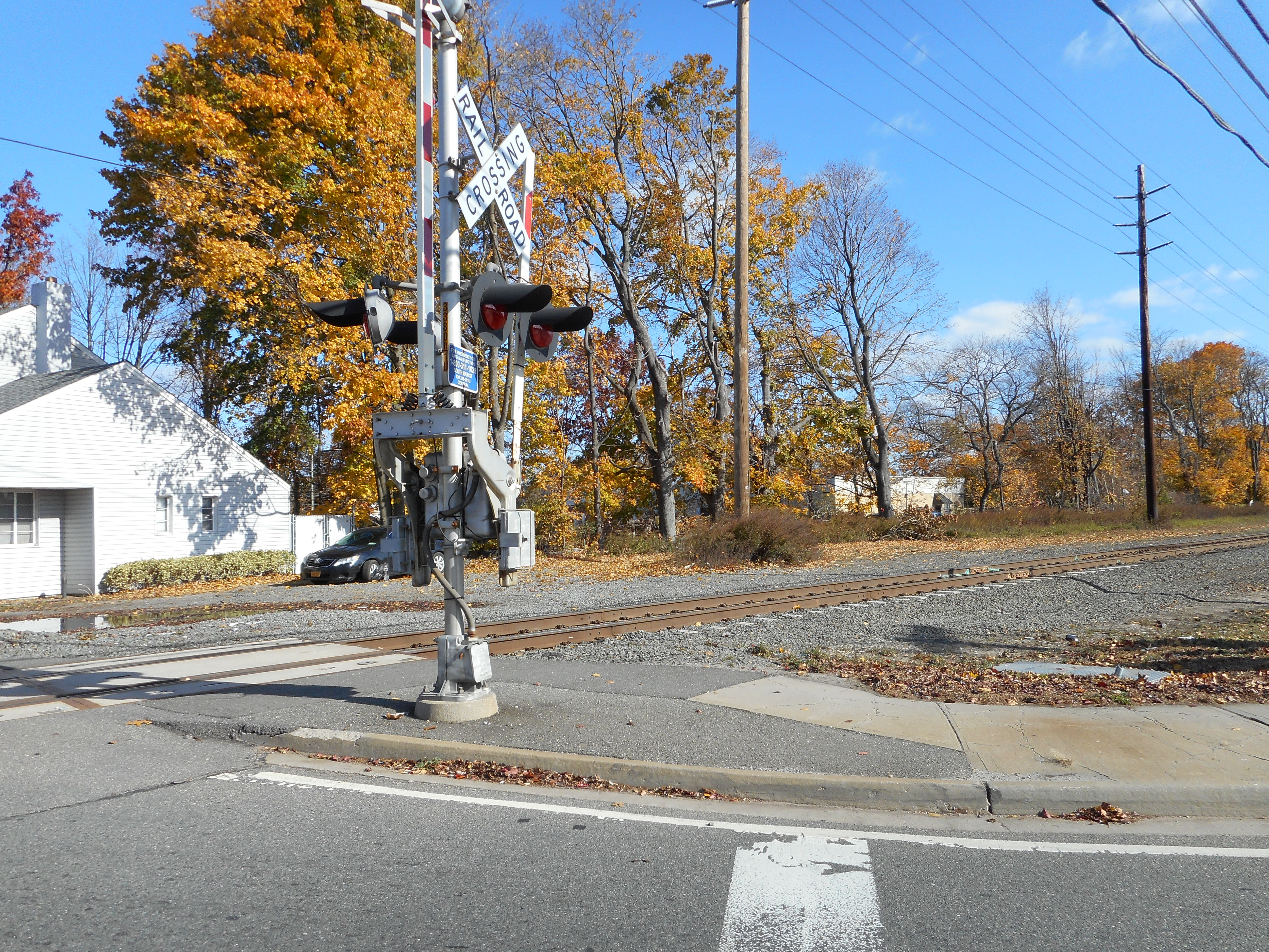 As the title describes, it's the former site of the South Farmingdale LIRR Station on Main Street in South Farmingdale, New York.